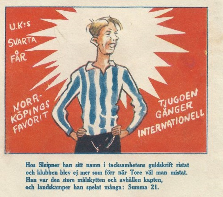 Swedish football legend Tore Keller in IK Sleipner's traditional club kit colors, blue and white striped shirt and black shorts, 1946.